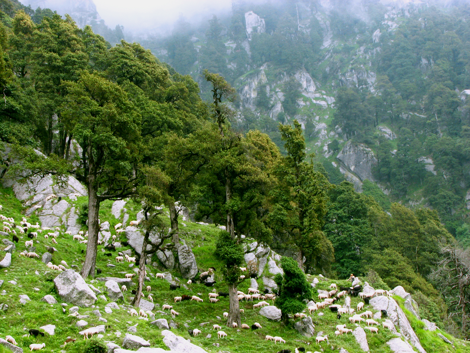 You’re the Black Sheep Shepard I’m the Black Sheep Queen But that money’s no good here if you know what I mean Come back and hold my head up Like you always used to do Only now my head is full of thoughts All of them of you But in case something goes under And we don’t make it though I have to say it now Black Sheep Shepard, I love you